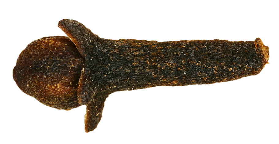 Extreme close-up picture of a clove